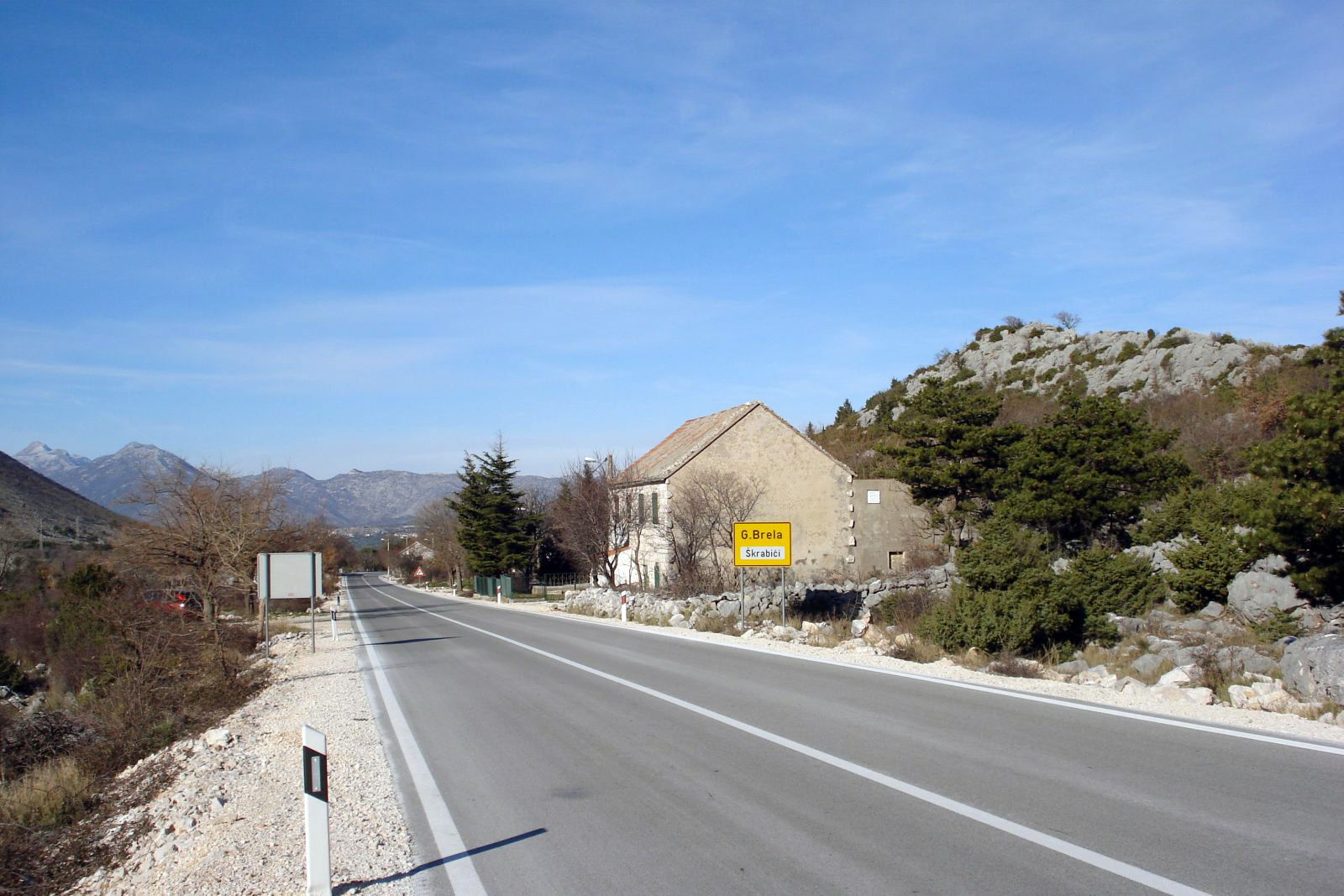 Gornja Brela, district Škrabići.